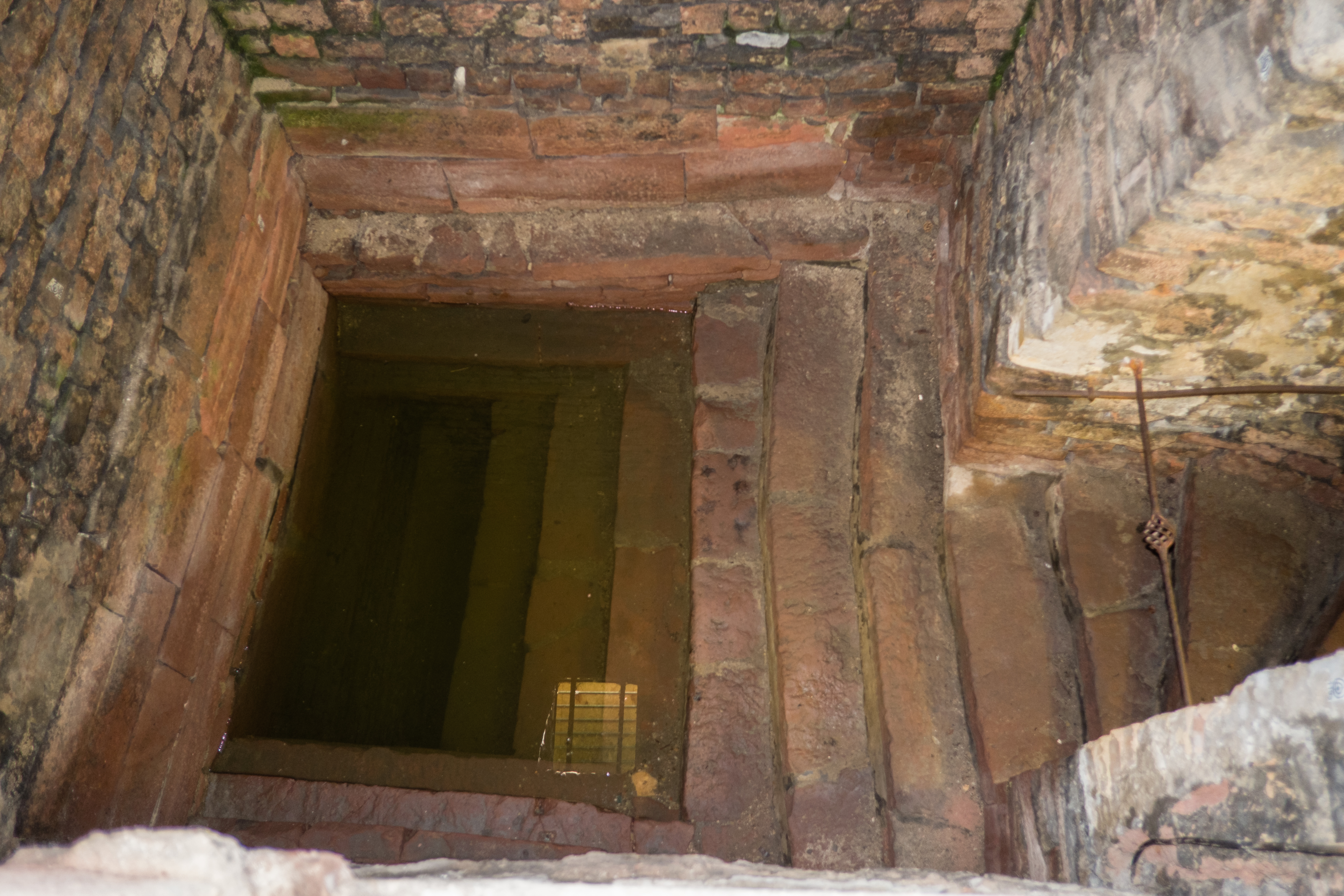 Mikvah of the synagogue Worms, Rhineland-Palatinate, Germany